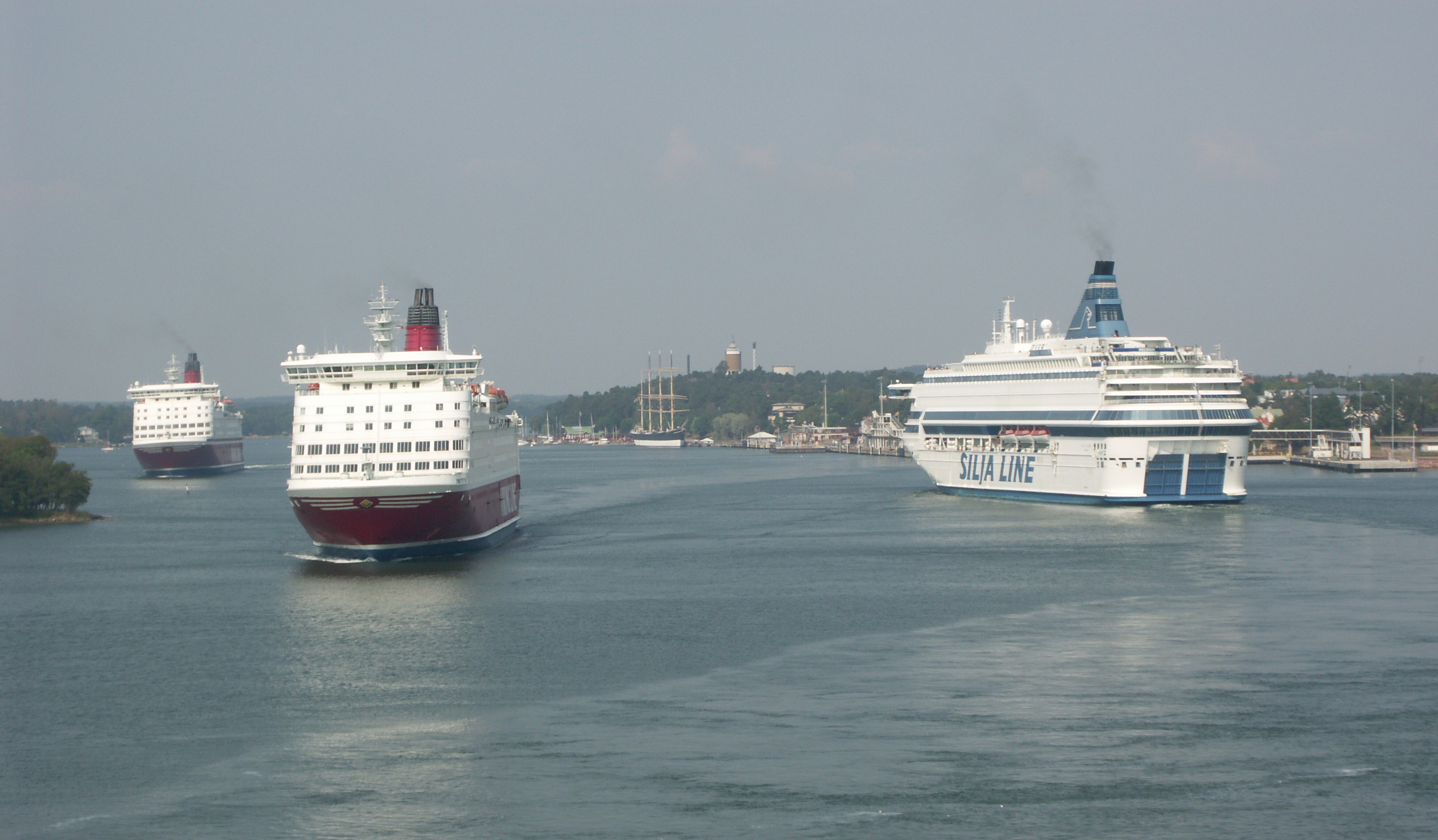 Ferries in the harbor of Mariehamn, Åland Islands, Finland.